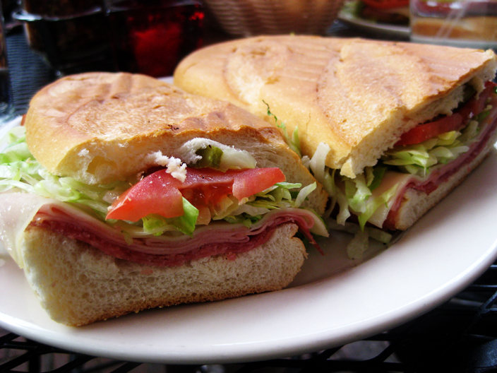 Italiano sandwich